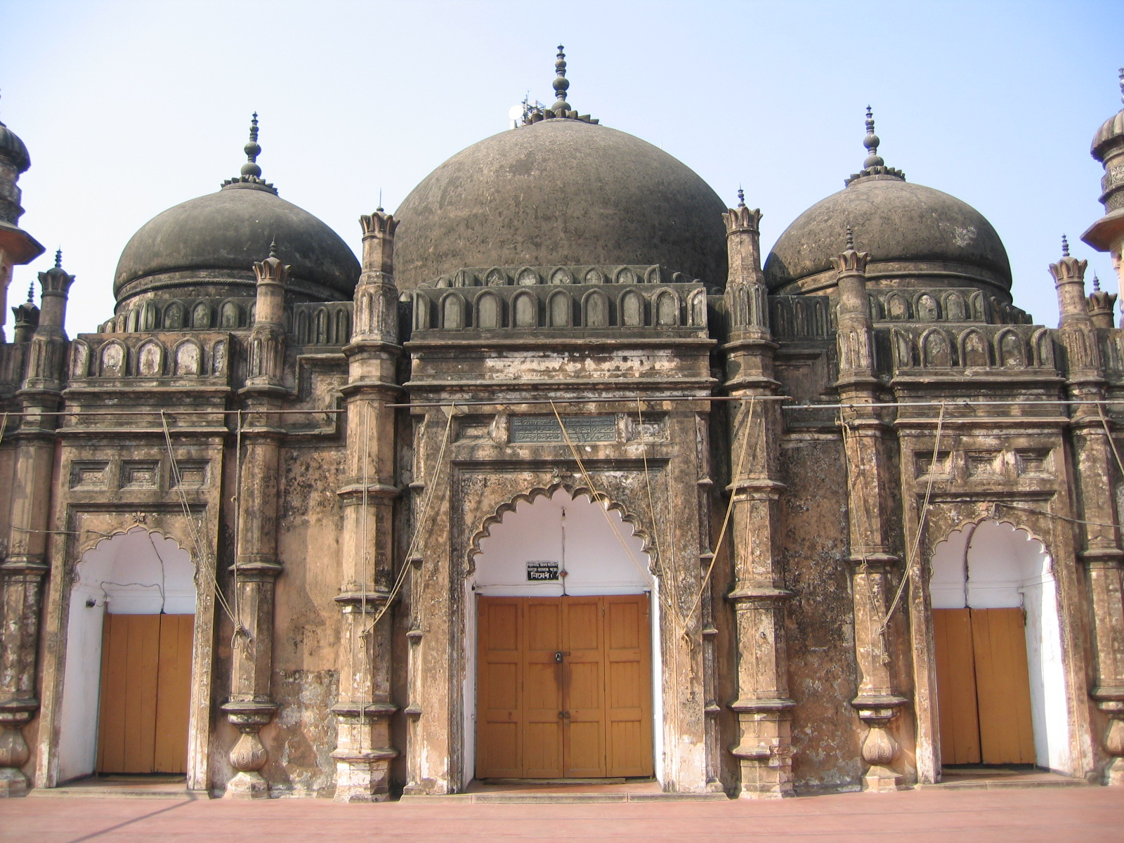 Domes of Khan Mohammad Mirdha's Mosque, Old Dhaka, Bangladesh